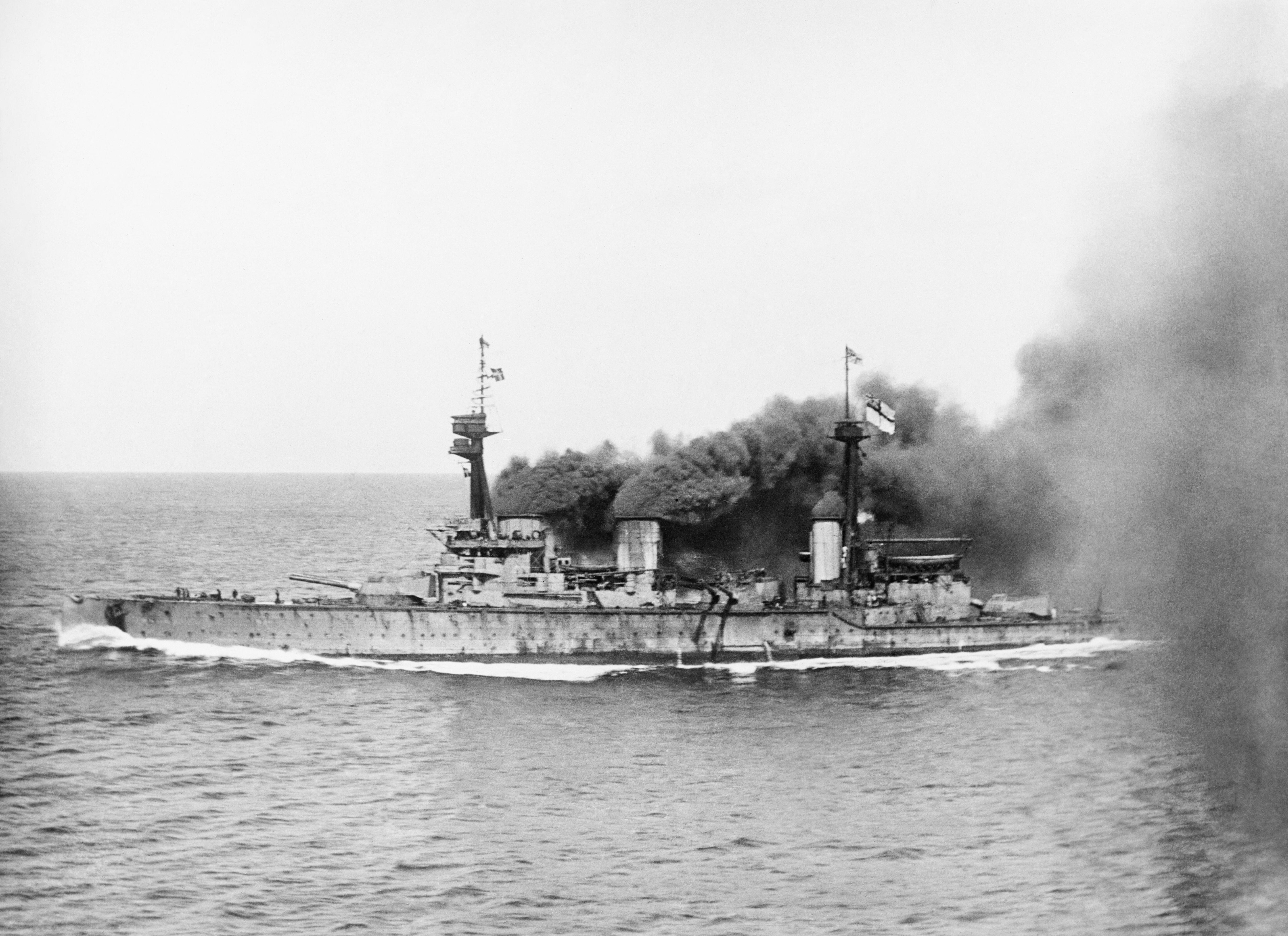 HMS Invincible going into action at the battle of the Falkland Islands